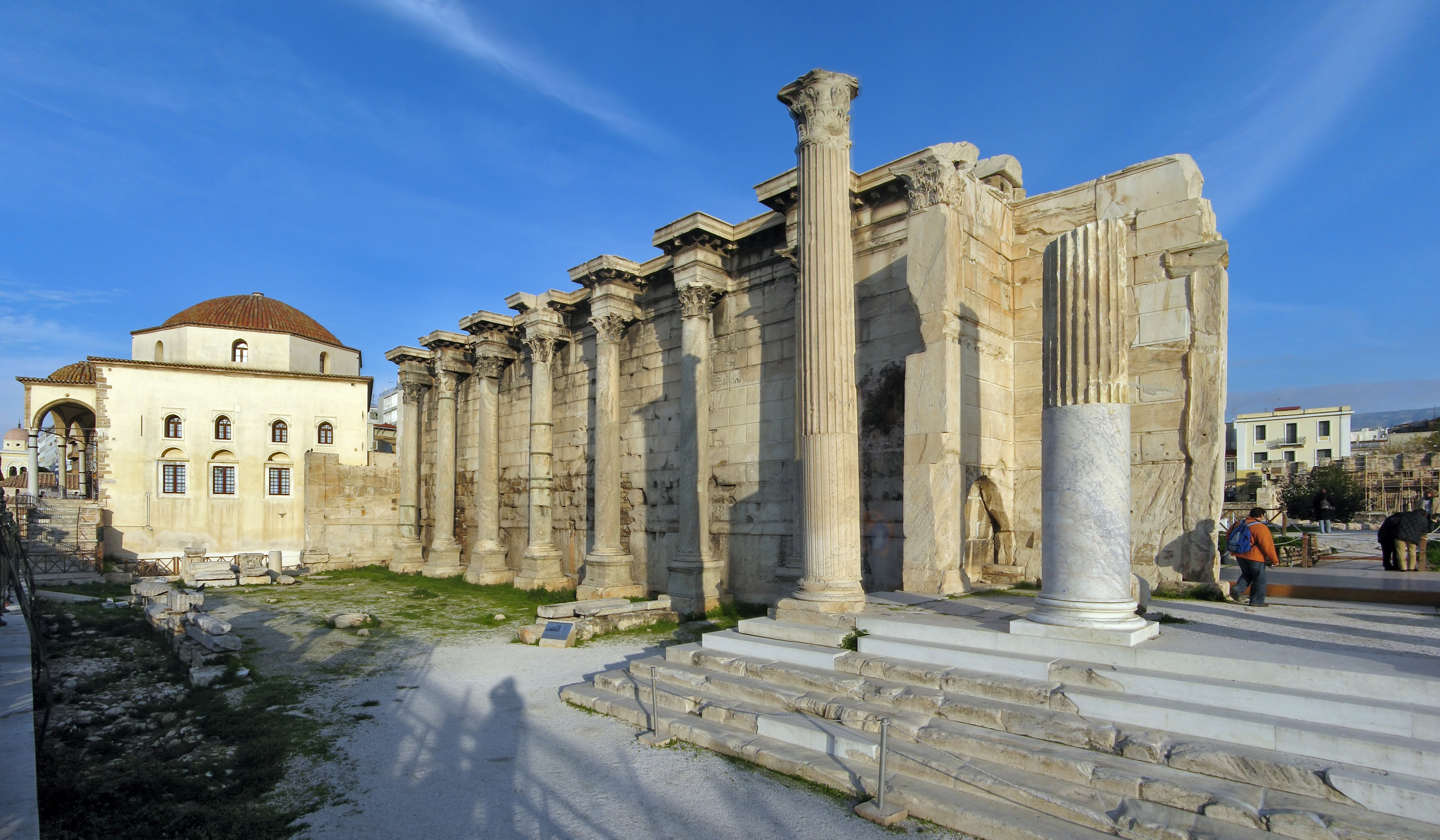 The Hadrian Library in Athen.